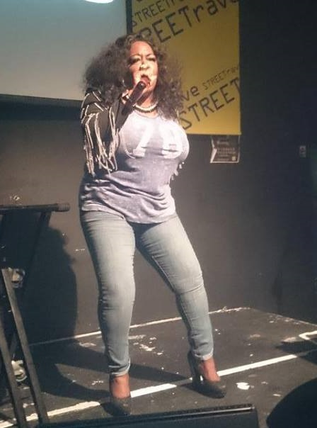 Kym Mazelle performing at StreetRave in Glasgow in October 2014.